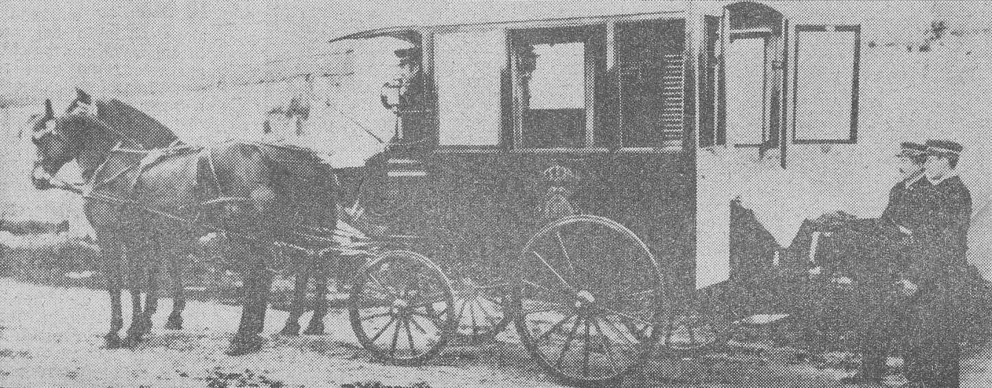 Two horses cart of Misericordia Confraternity of Pisa, Tuscany, Italy.